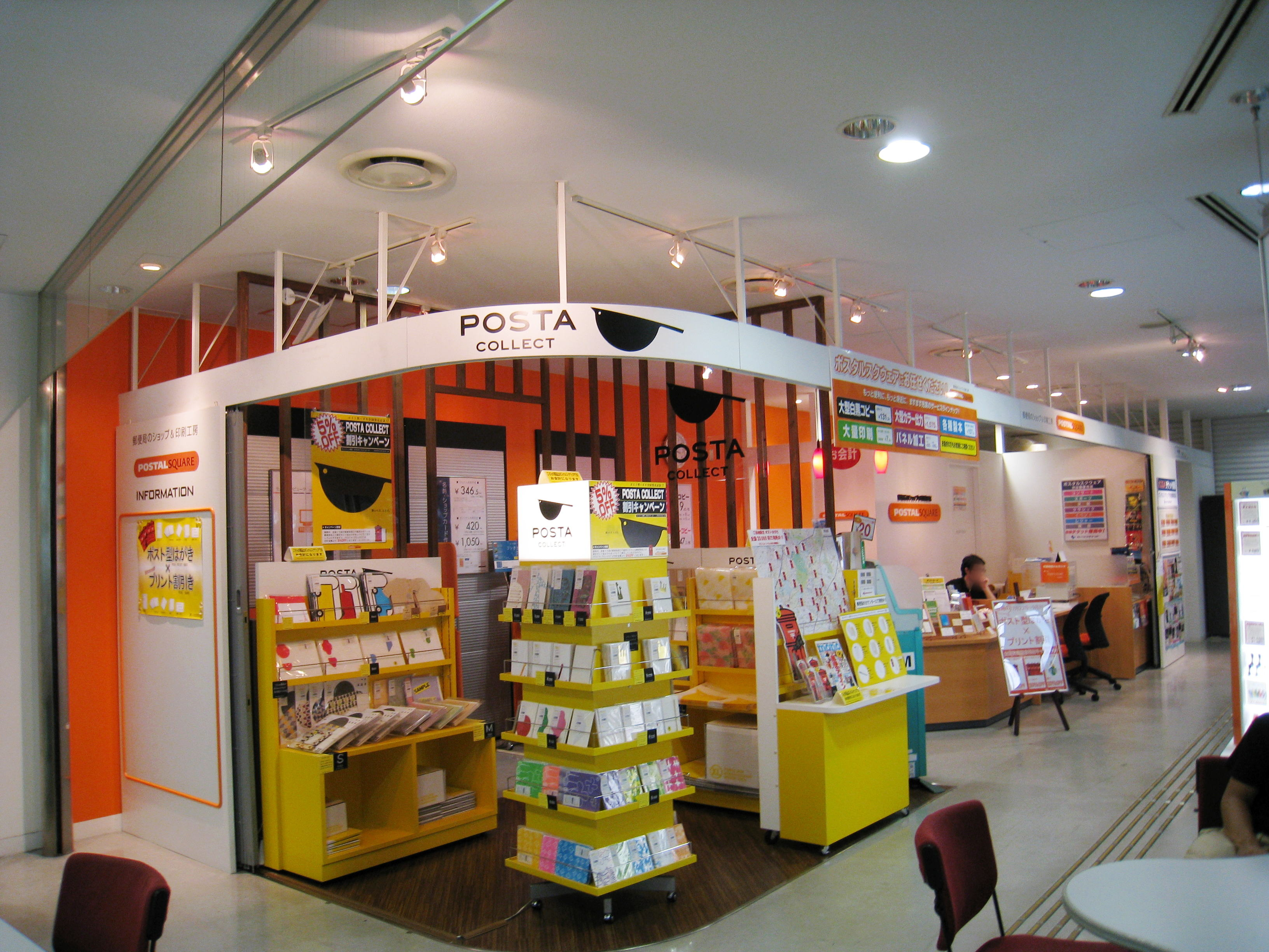 Shibuya postoffice. Shibuya-ku, Tokyo, Japan